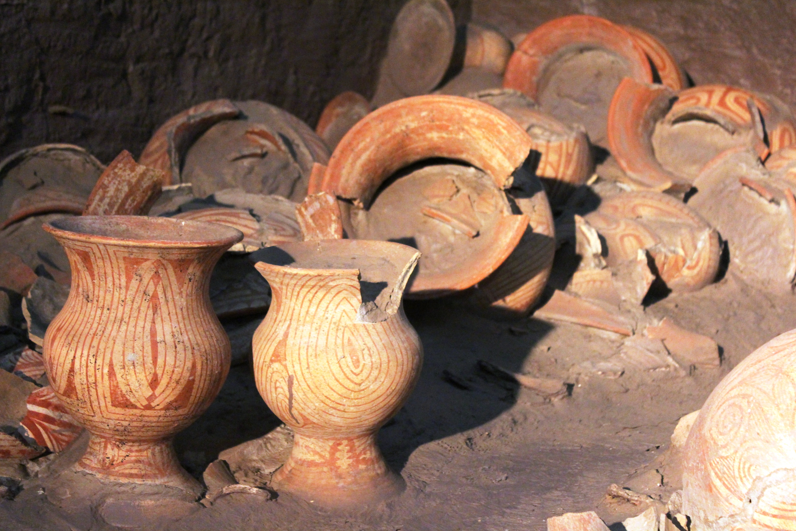 A mock up of the excavation at Ban Chaing Museum